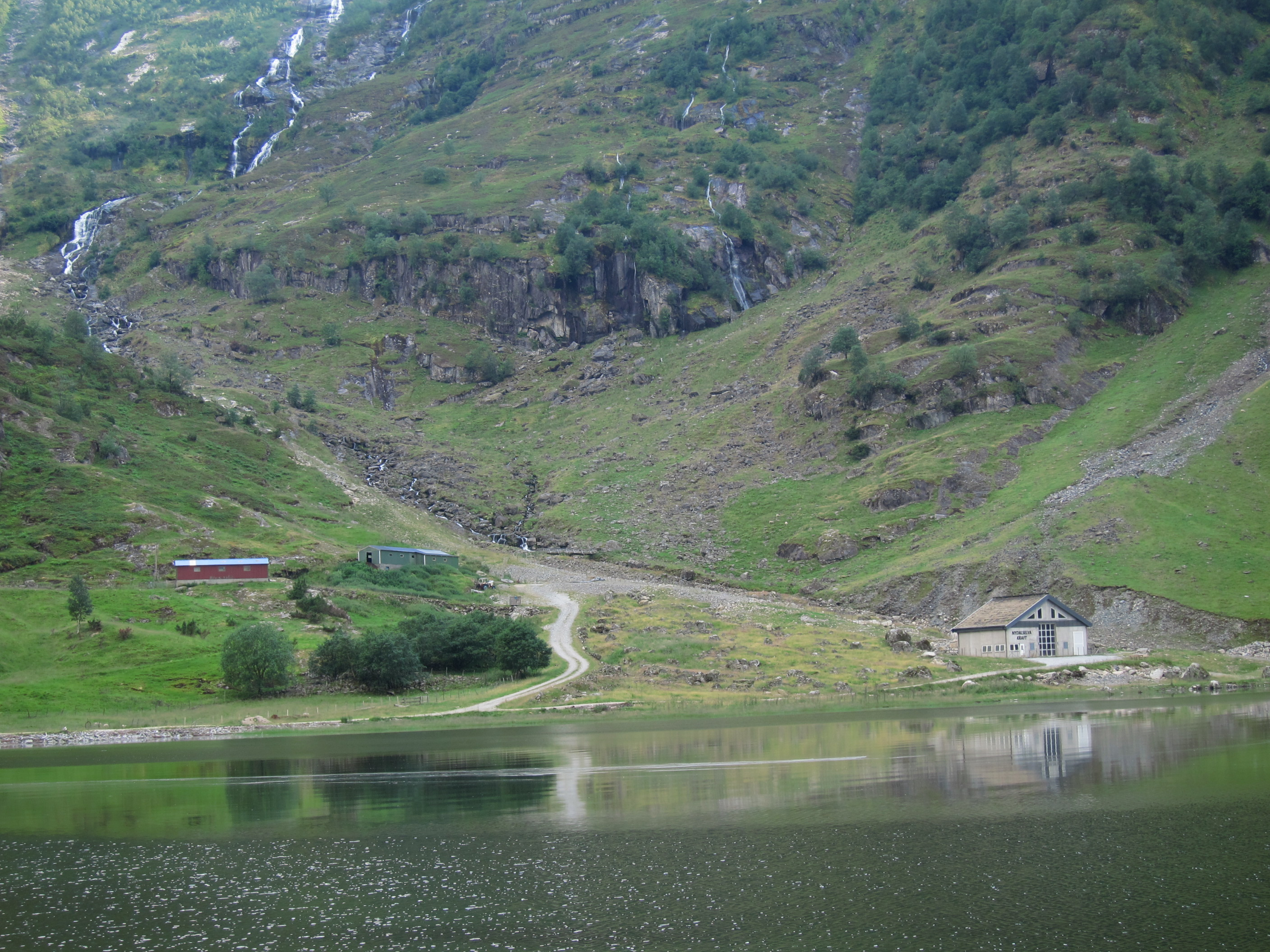 Nydalselva hydro power station, at Breimsvatnet lake, Sogn og Fjordane.